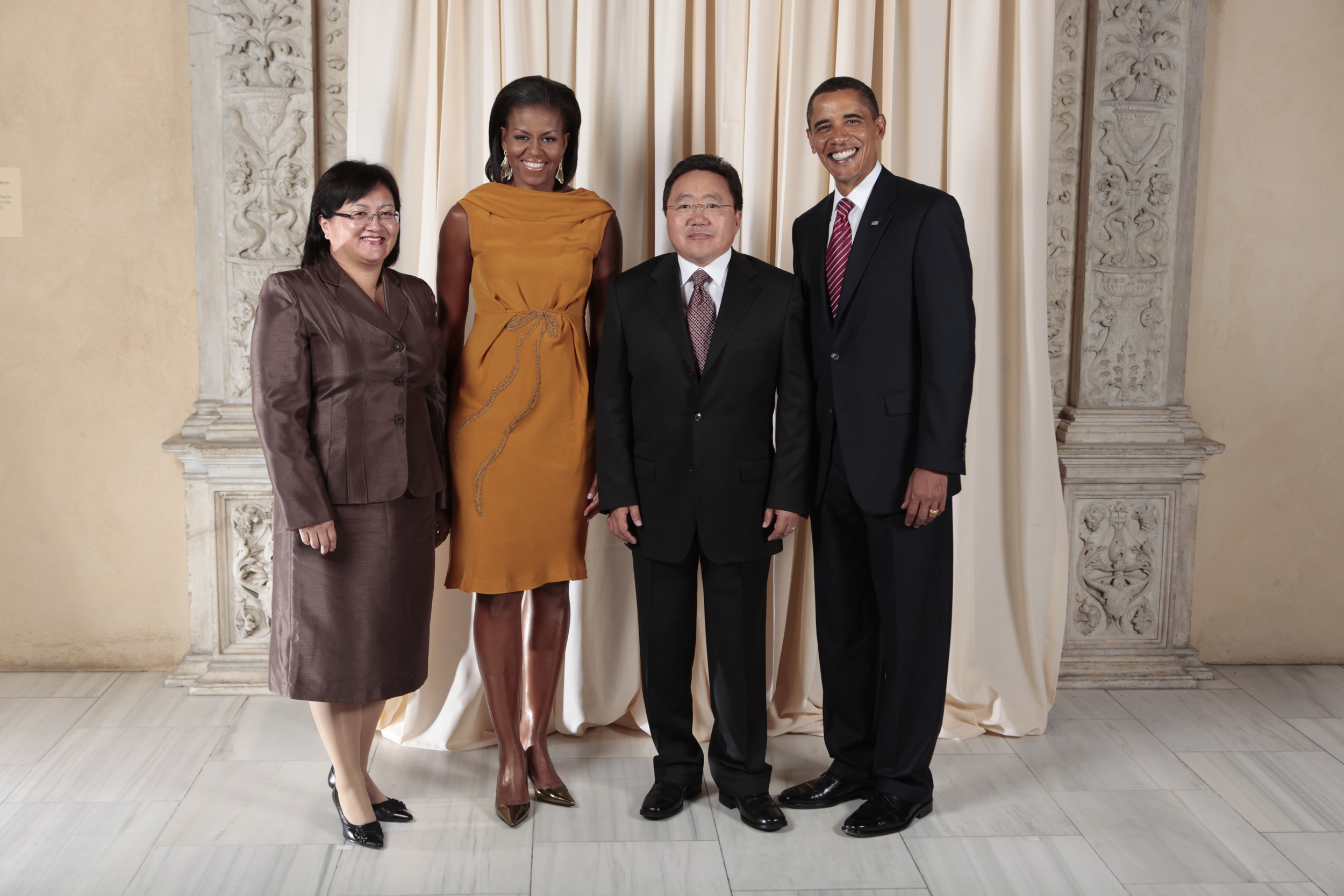 President Barack Obama and First Lady Michelle Obama pose for a photo during a reception at the Metropolitan Museum in New York with Tsakhiagiin Elbegdorj, President of Mongolia, and his wife, Mrs. Khjidsurengiin Bolormaa.